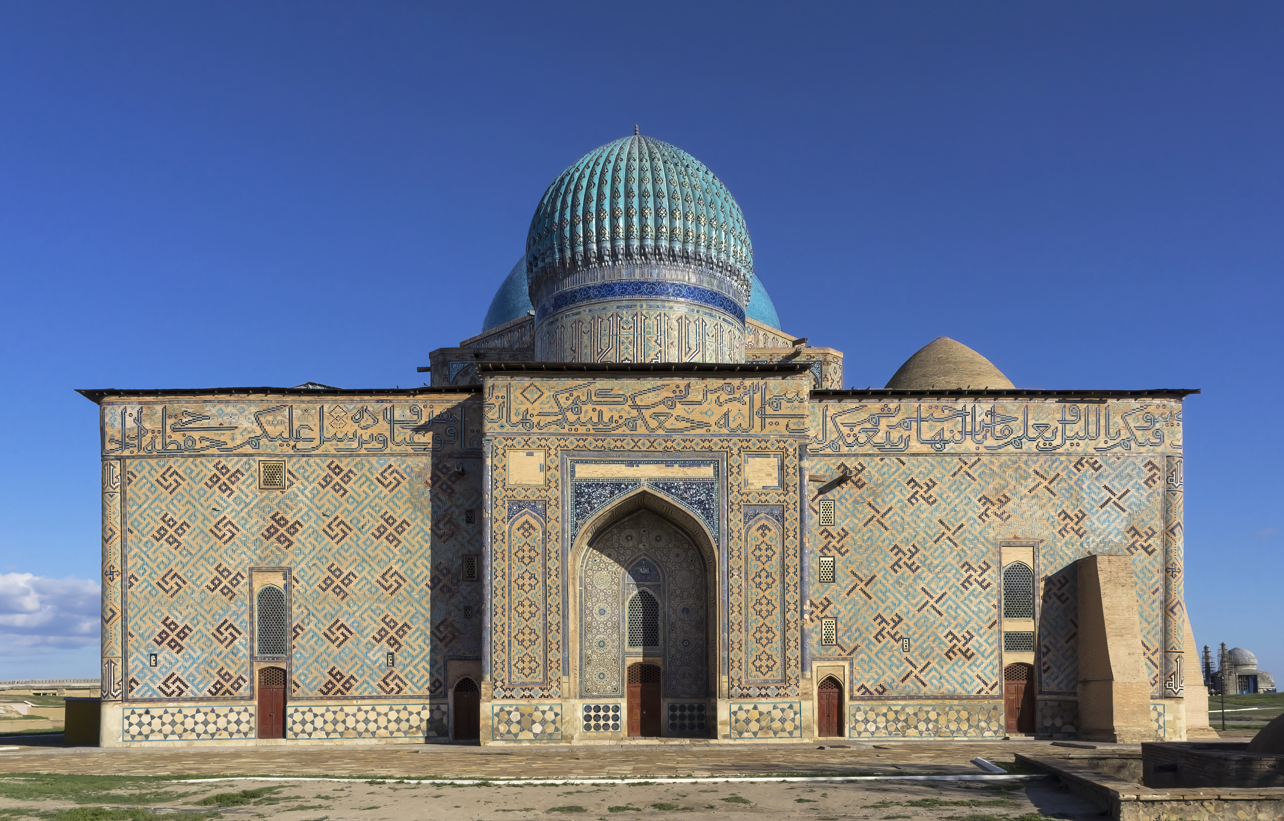 Mausoleum to Khoja Ahmad Yasawi (UNESCO World heritage site), Hazrat-e Turkestan, Kazakhstan. Prime example of Timurid arhcitecture with bigest Dome in Central Asia.